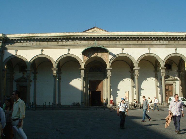 Basilica della Santissima Annunziata di Firenze, Florence. Photo taken by Necrothesp, 20 May 2004. Permission is granted to copy, distribute and/or modify this document under the terms of the GNU Free Documentation License, Version 1.2 or any later version published by the Free Software Foundation; with no Invariant Sections, no Front-Cover Texts, and no Back-Cover Texts. A copy of the license is included in the section entitled "Wikipedia:Text of the GNU Free Documentation License". Subject to disclaimers.